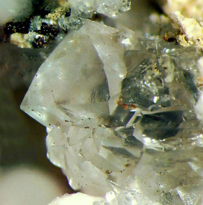 Faujasite - Locality: Poudrette quarry (Demix quarry; Uni-Mix quarry; Desourdy quarry), Mont Saint-Hilaire, Rouville RCM, Montérégie, Québec, Canada - FOV 2.0 x 2.0 mm. Collected by Modris B. May 1997.